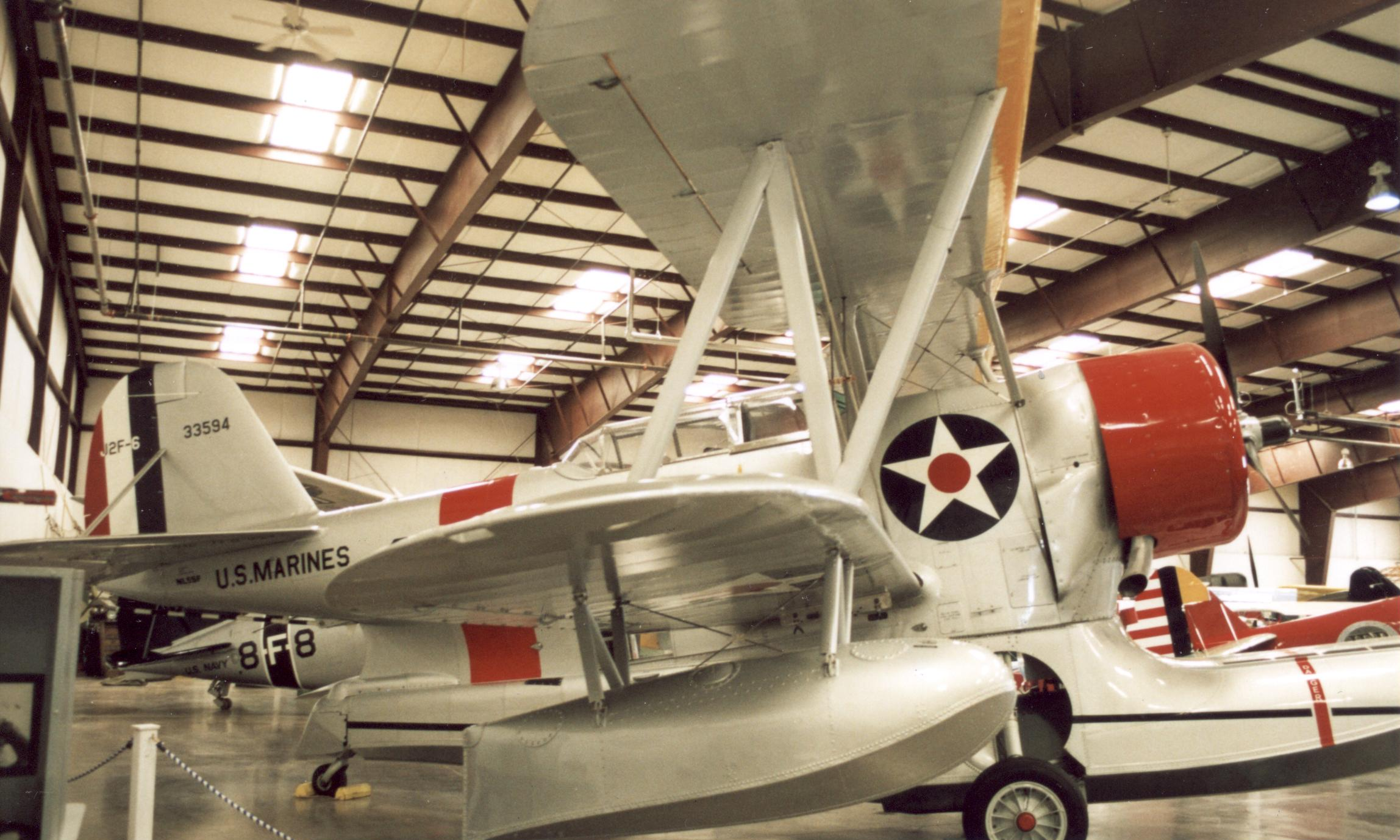 Grumman J2F-6 Duck NL5SF/BuAer 33594 built by Columbia Aircraft Corporation in 1942 airworthy at Valle Arizona in October 2005 in US Marine Corps markings